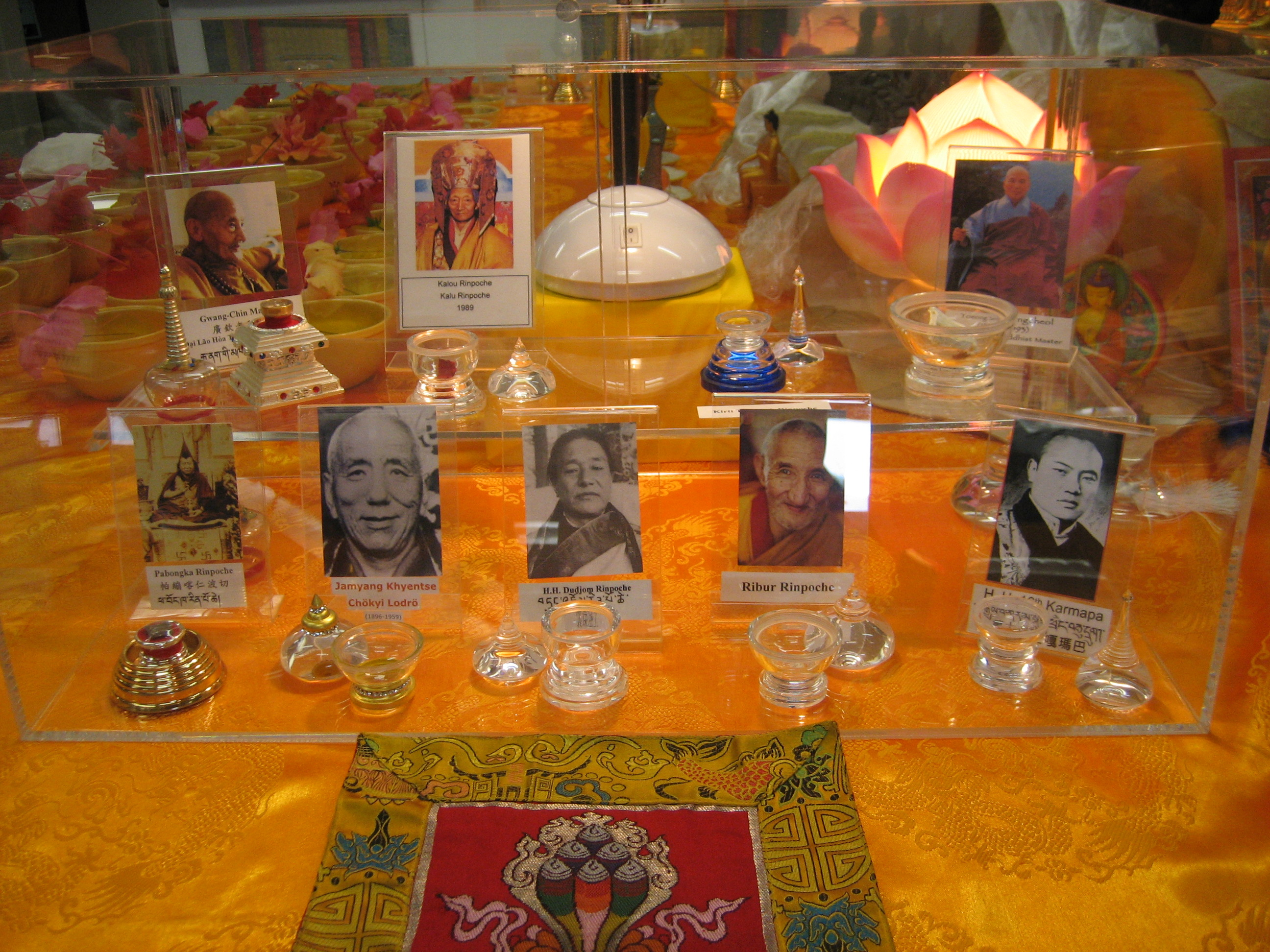 The Maitreya Project on tour at KCC.